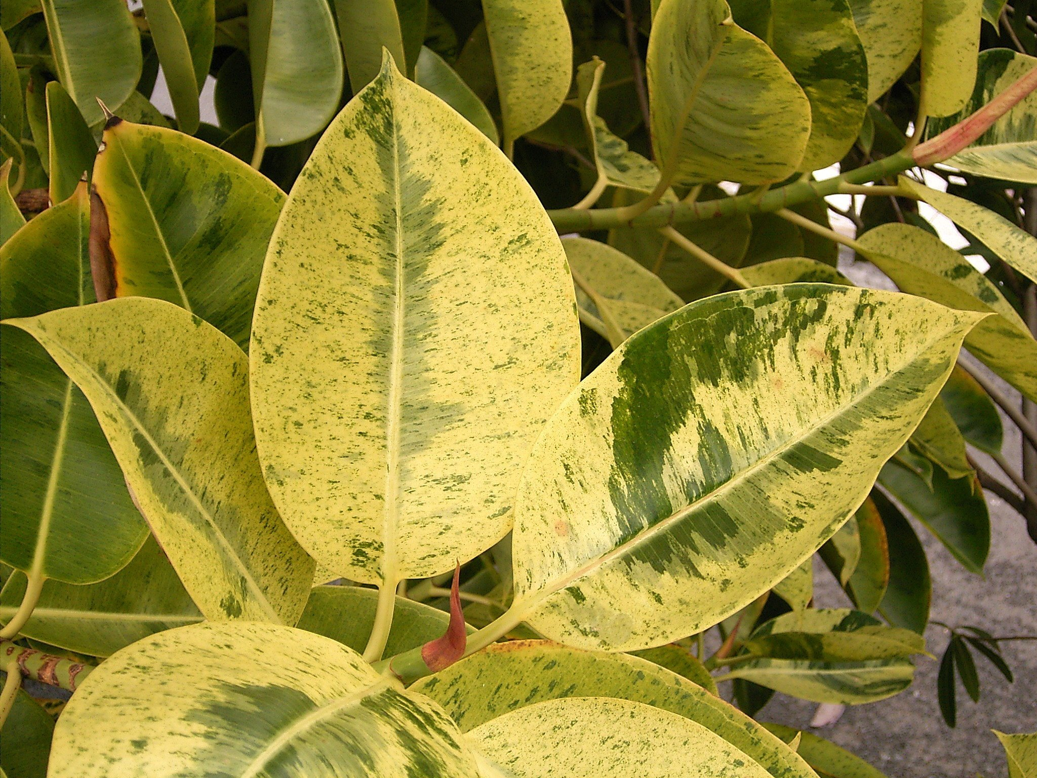 Variegated Ficus elastica 'Shrivereana' growing at Los Cancajos, La Palma, Canary Islands